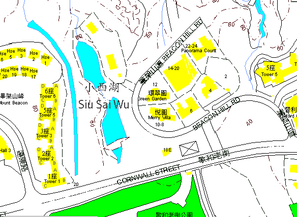 Location Map of Siu Sa Wu, Beacon Hill, Kowloon Tong, Hong Kong 中文（香港）: 香港，九龍塘，煙墩山(筆架山)，小西湖的位置圖